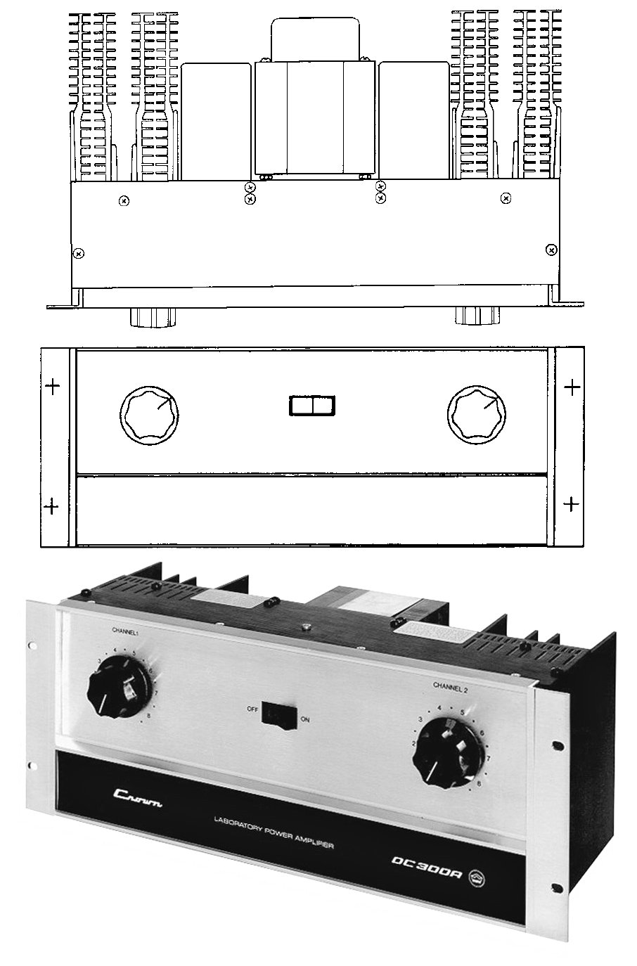 Crown International DC300A amplfier with three views: overhead outline graphic, front face outline graphic and three-quarter monochrome photograph. Sources of the images are from Crown Audio